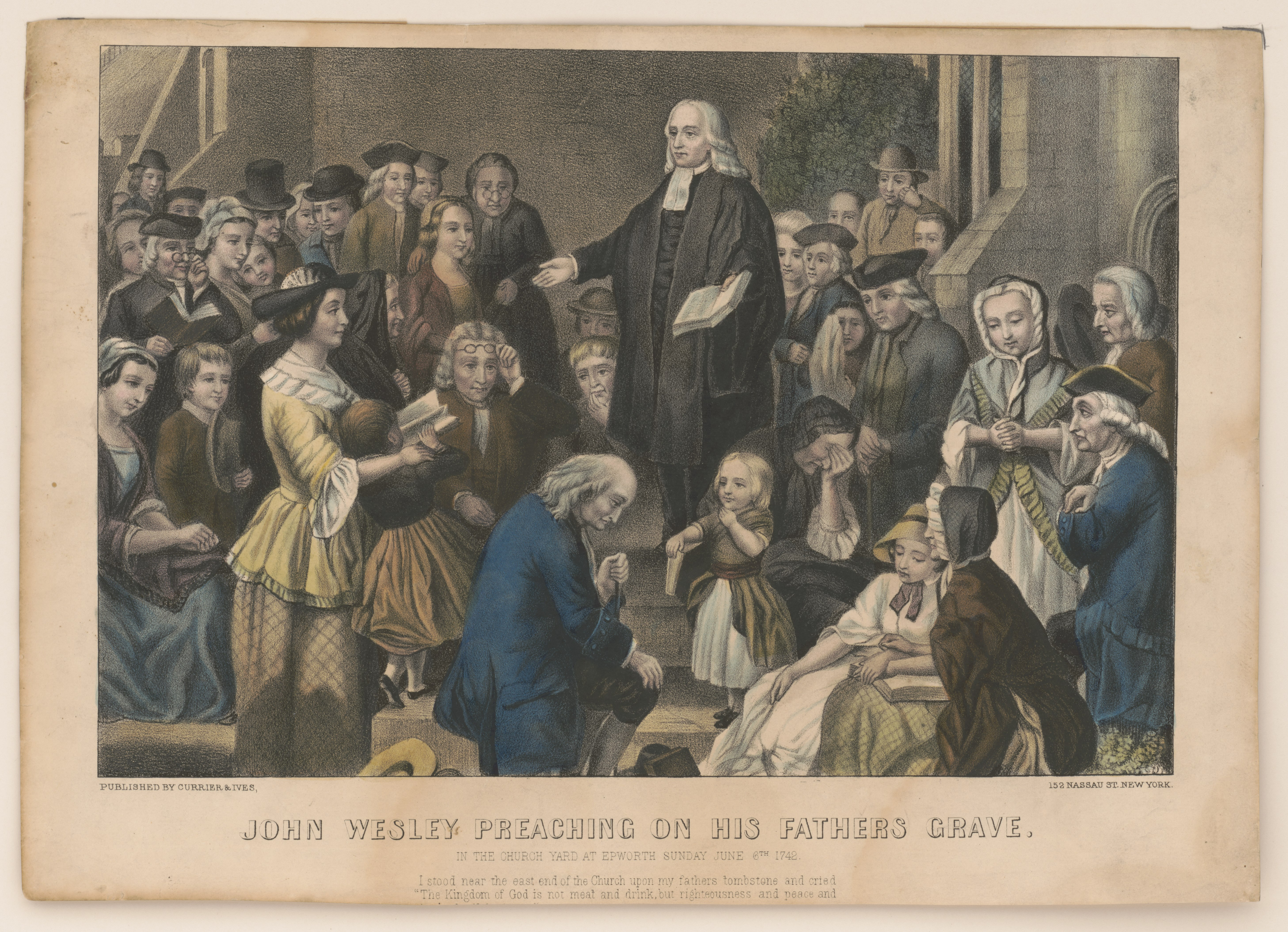 Title: John Wesley preaching on his fathers grave: in the church yard at Epworth Sunday June 6th 1742 Physical description: 1 print : lithograph, hand-colored.